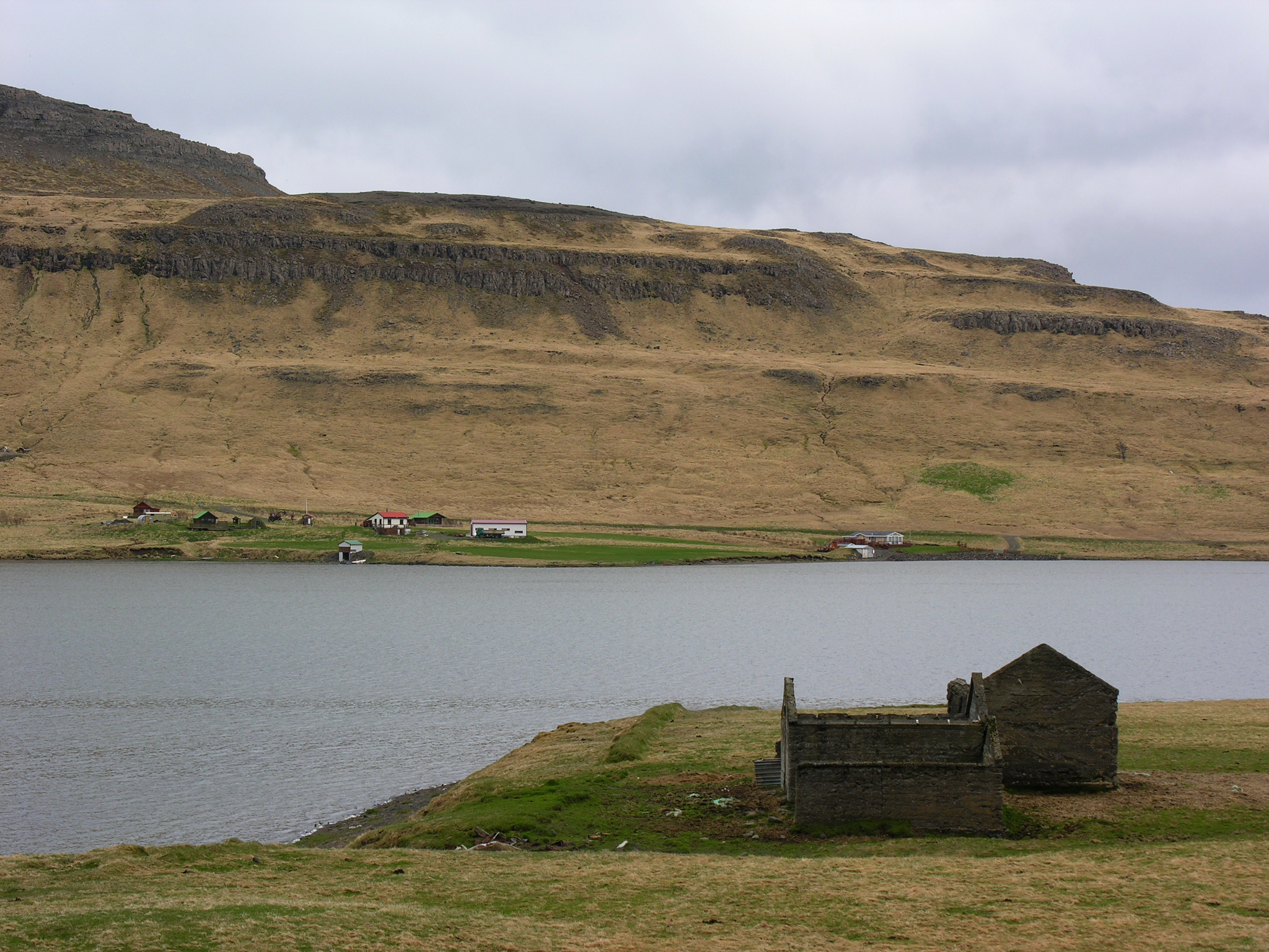 Iceland, views around Snæfellsnes peninsula